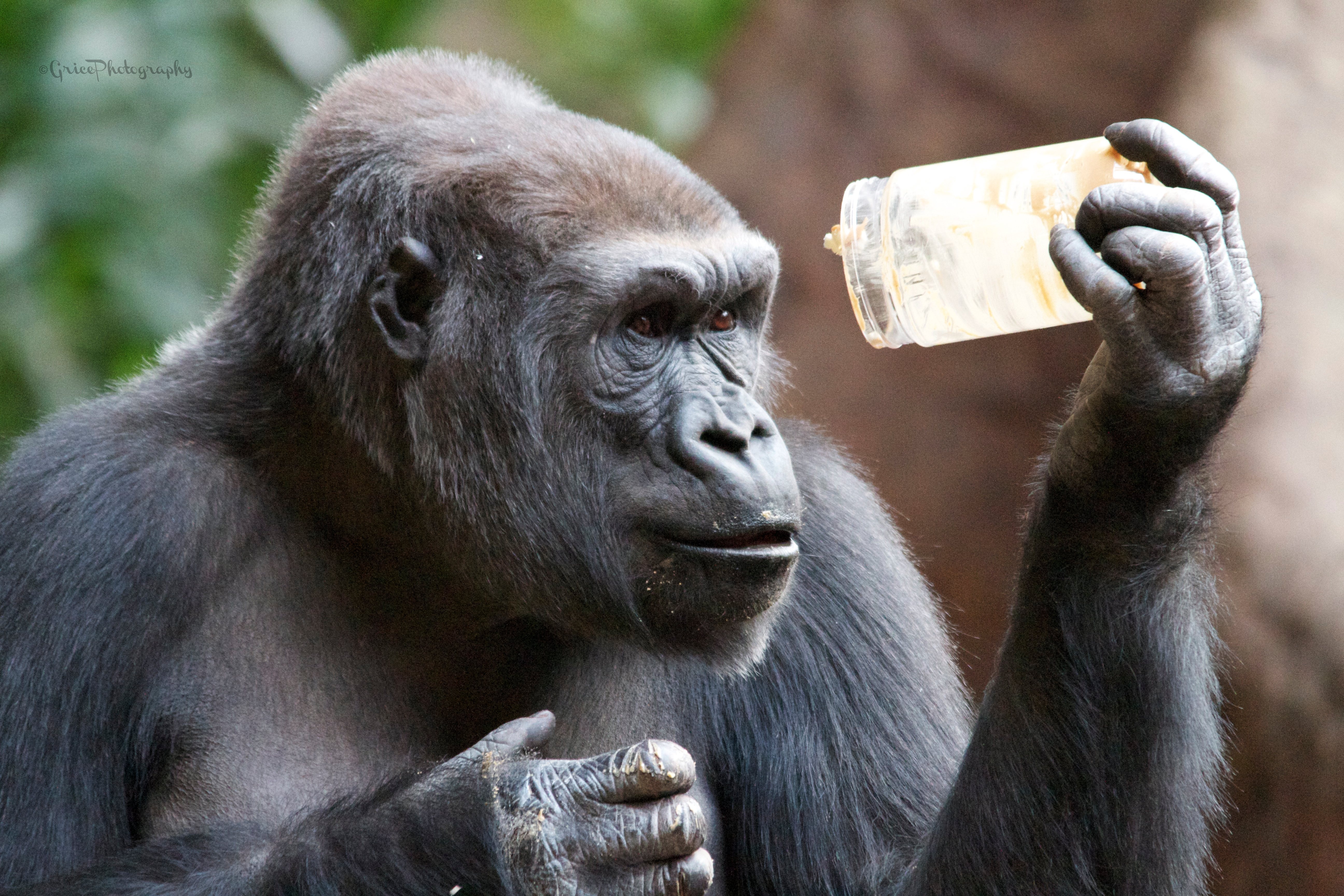 At the zoo Gorillas are given peanut butter as a treat this guy is looking to see whats left in the jar.